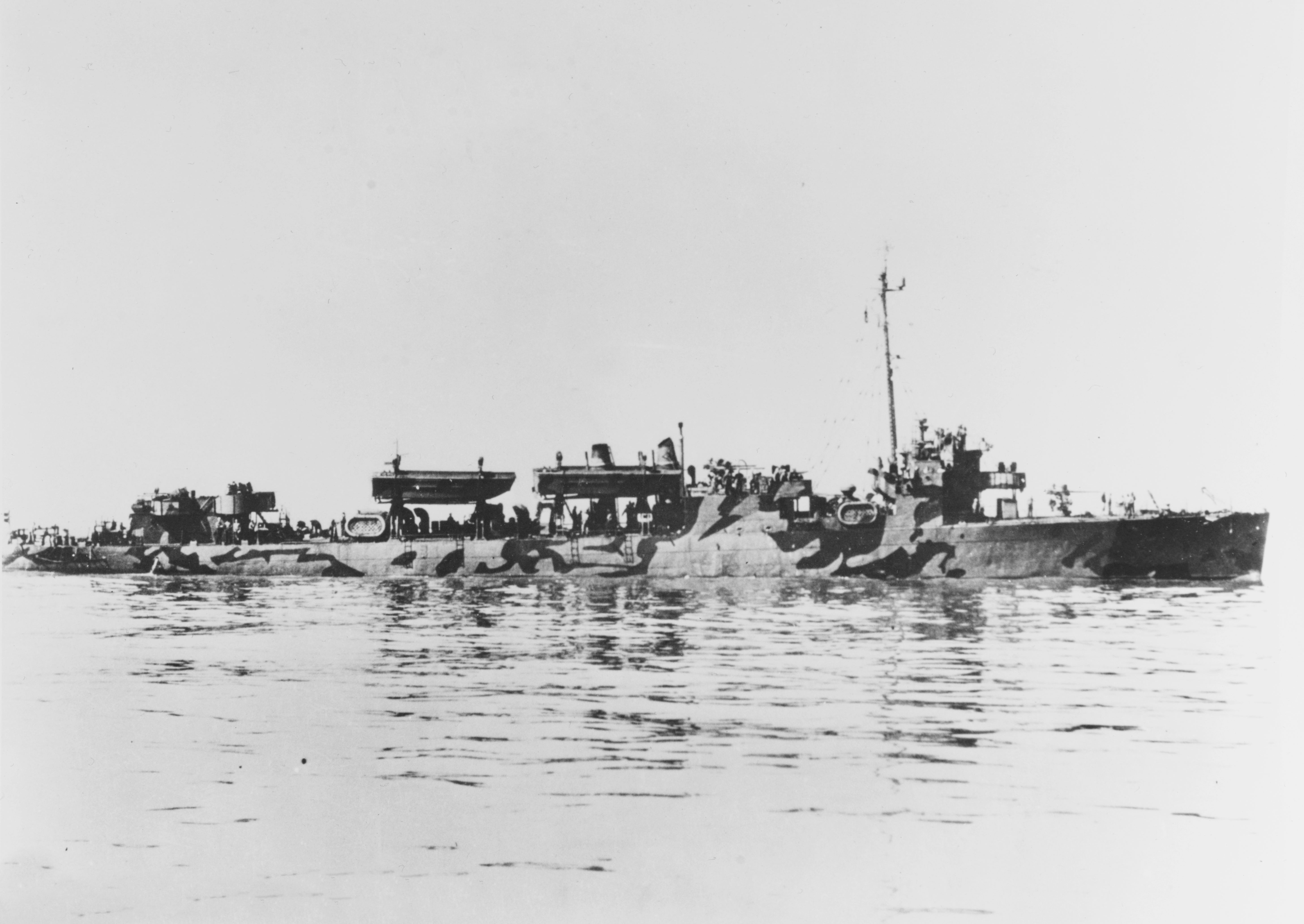 The U.S. Navy high-speed transport USS Waters (APD-8) circa in 1944.